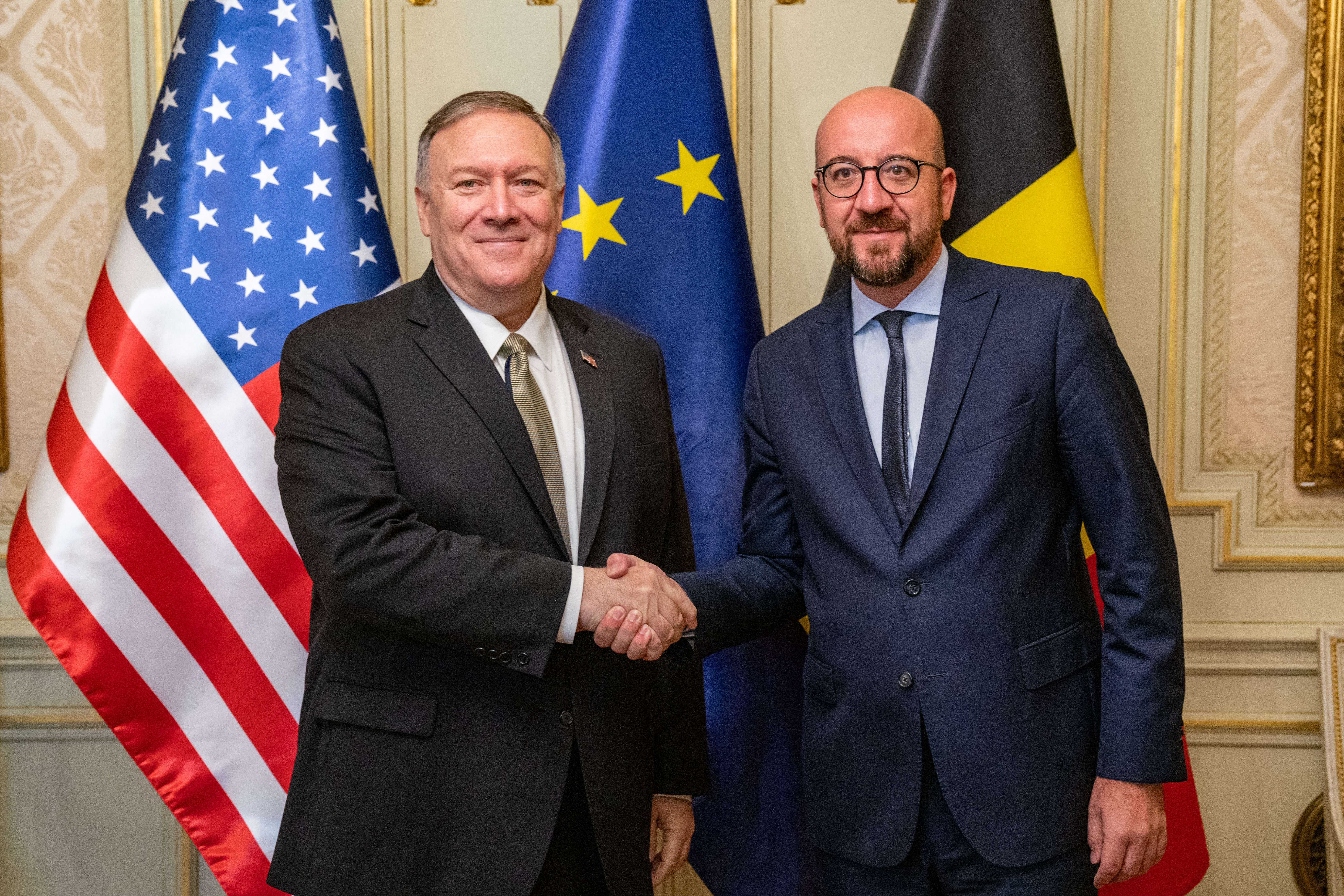 U.S. Secretary of State Michael R. Pompeo meets with Belgian Prime Minister Charles Michel and European Council President-elect in Brussels, Belgium.